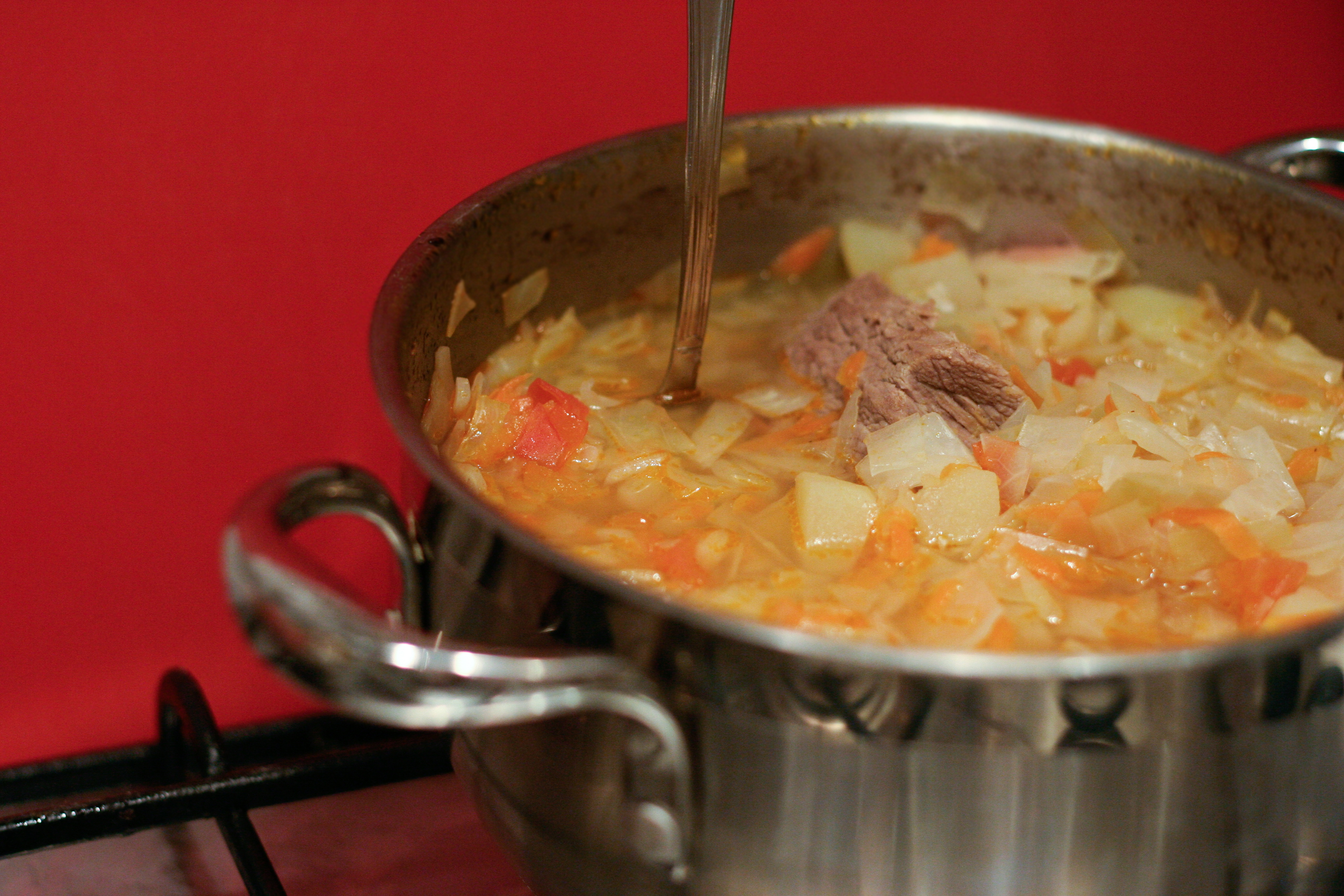 Shchi, Russian cabbage soup Original caption: Russian tradtional cabbage soup - "schee". It's considered to be good if the spoon can stand :)